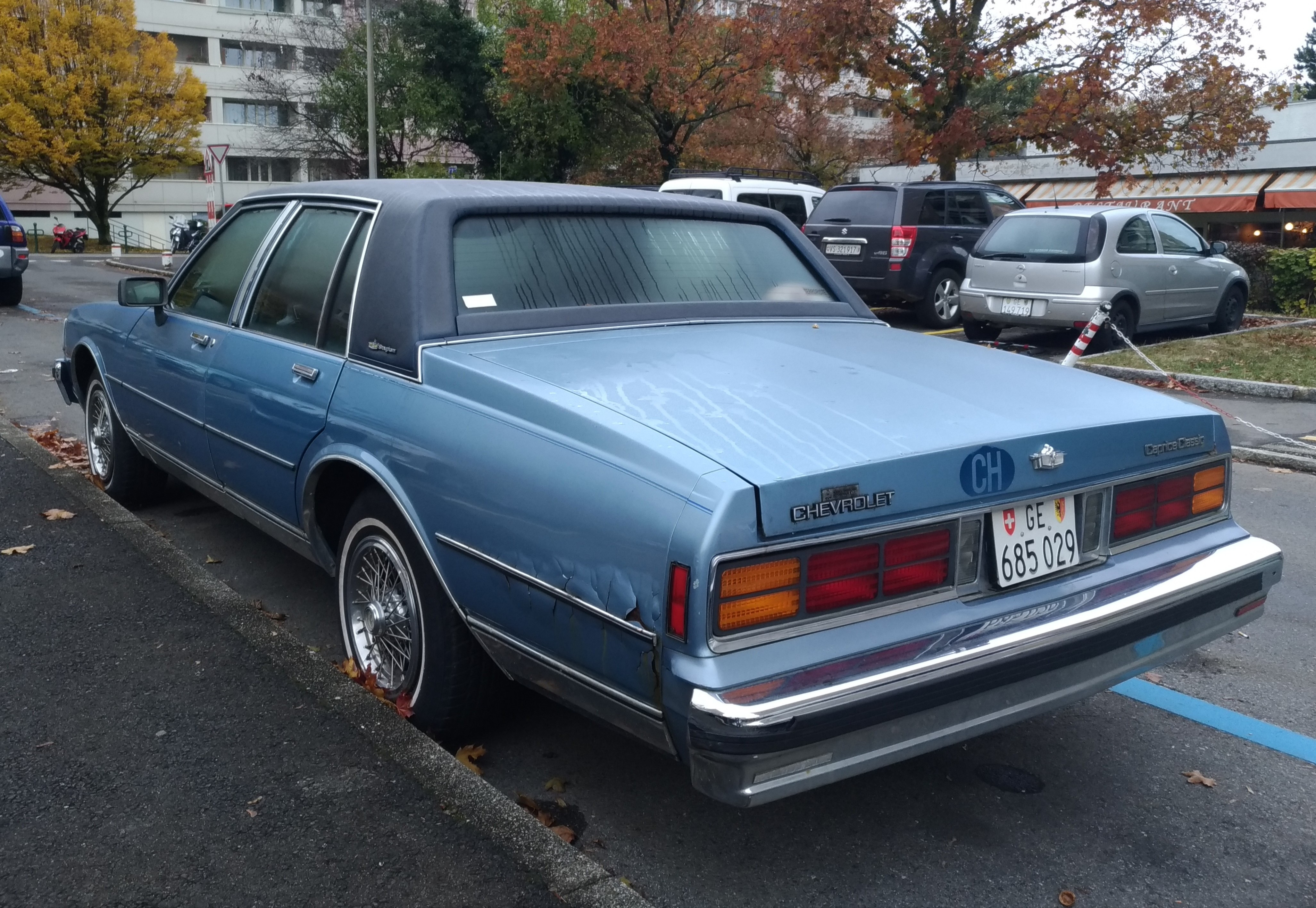 Chevrolet Caprice Classic